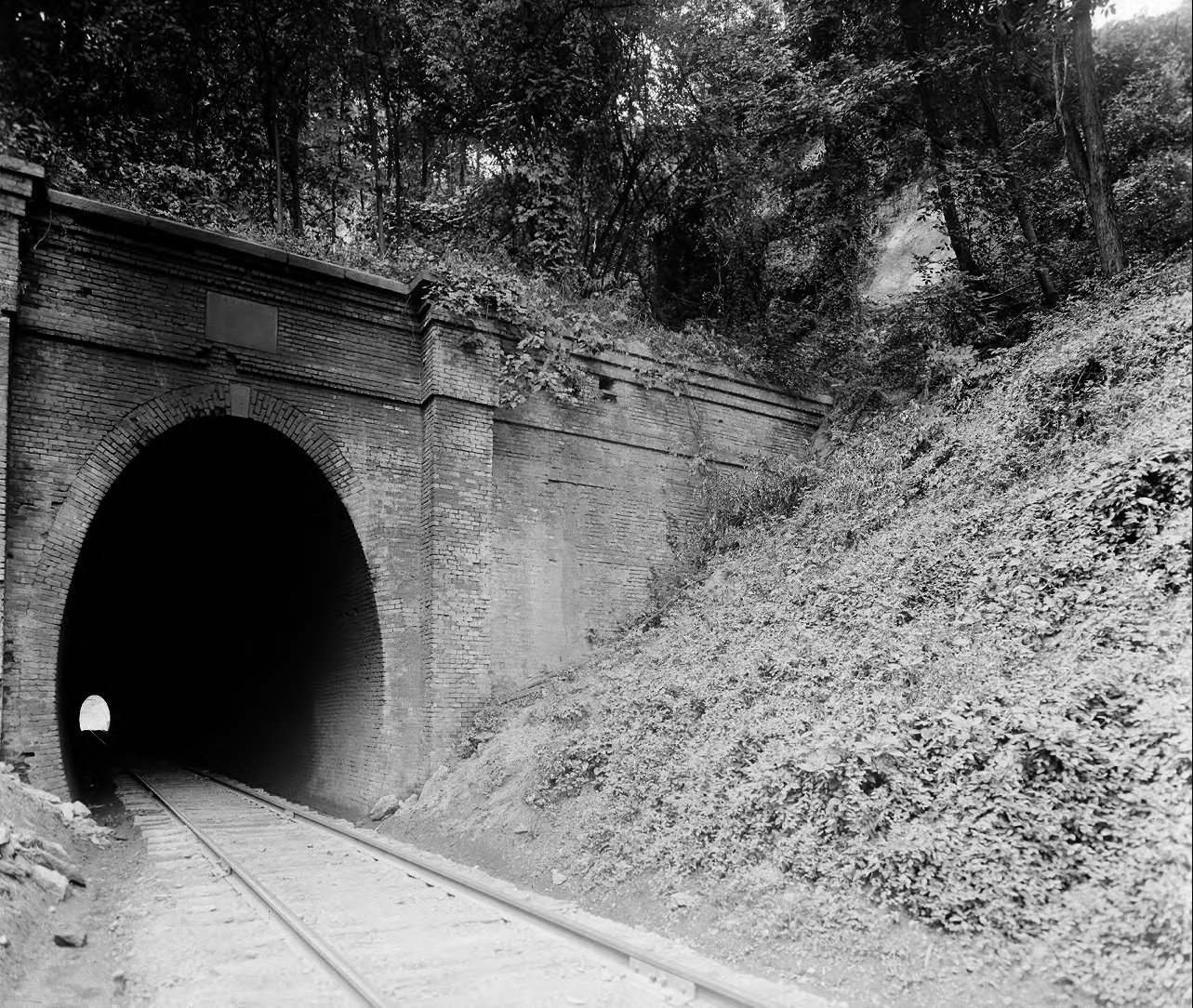 The Greenwood Tunnel, easternmost tunnel of four on Chesapeake and Ohio Railway (Blue Ridge Railroad section) near Greenwood, Albemarle County, Virginia.